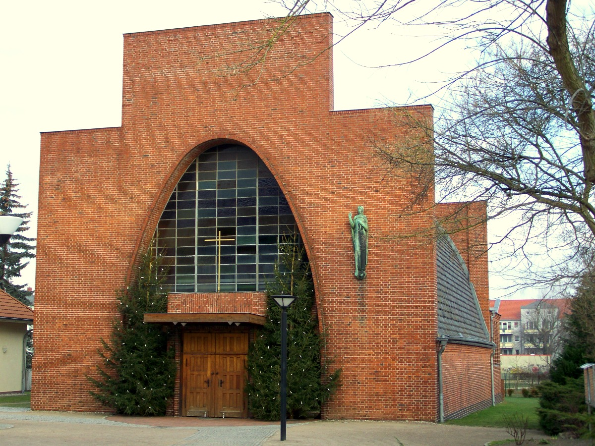 The St. Mary Assumption Church of Güstrow